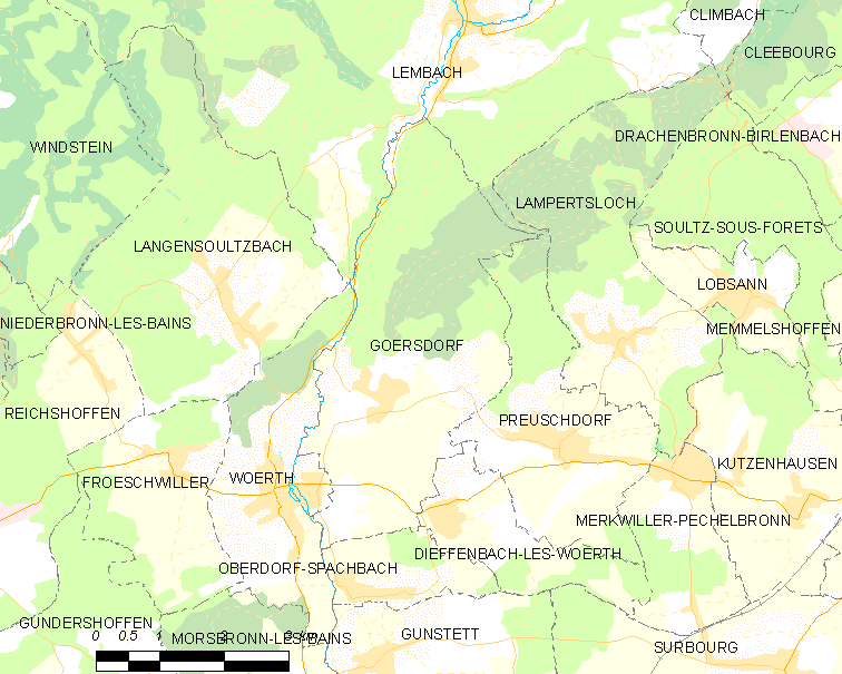 Map of French municipality